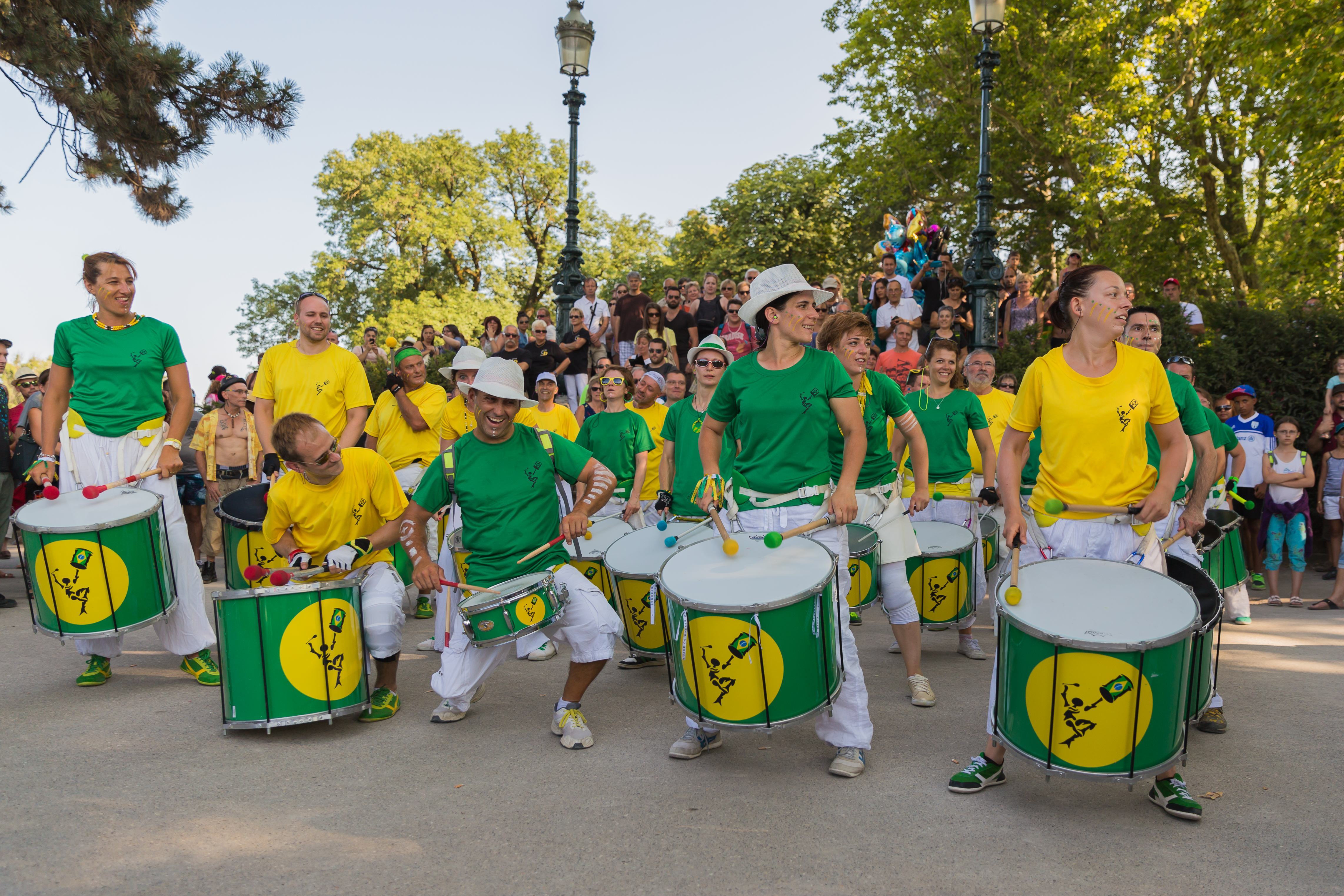 Group Tribal Percussion marching in Annecy (France) playing Brazilian percussion: the Batucada. Website